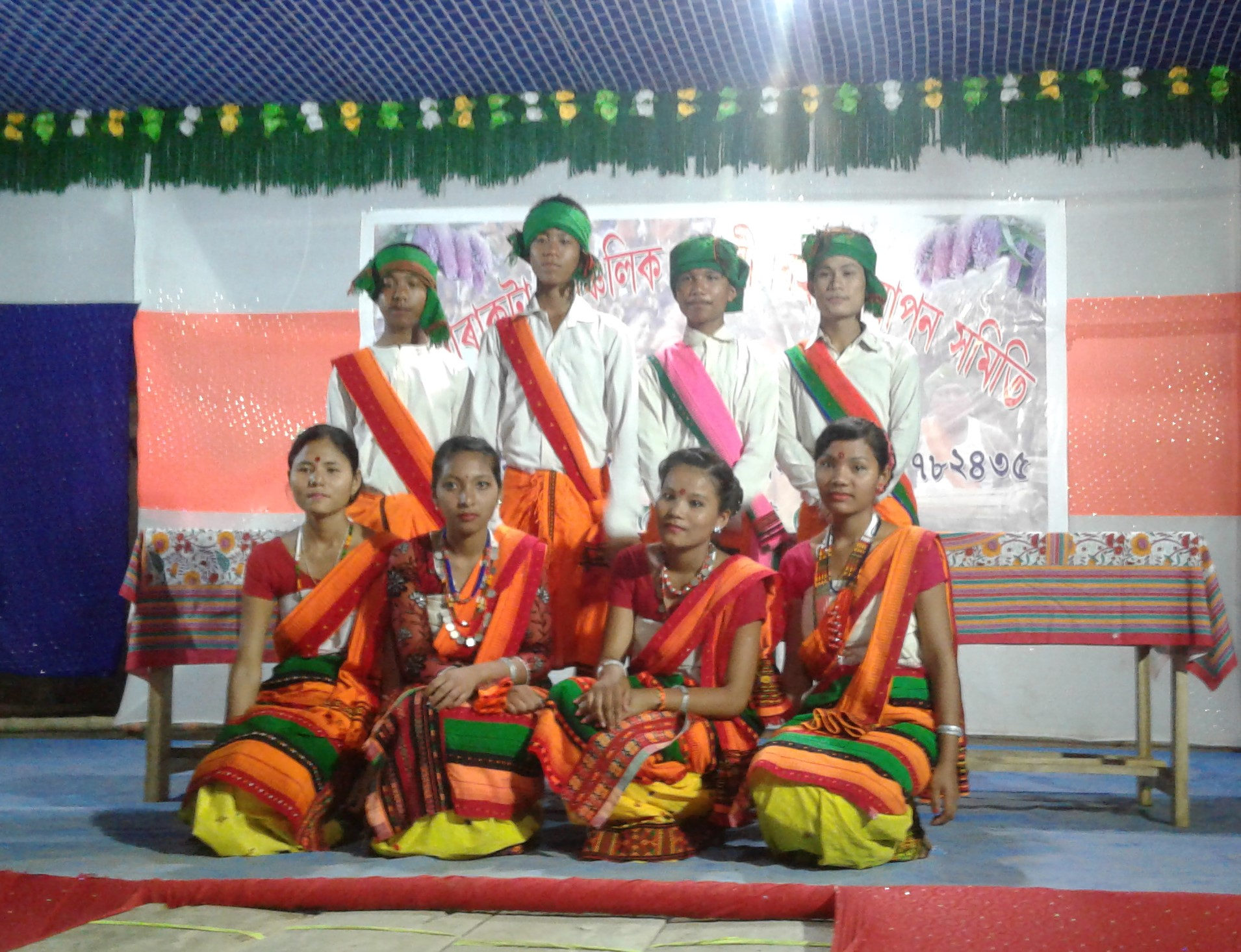 Festival celebrated at Hojai Dist. Busu(festival) pictures